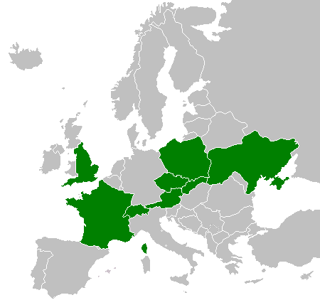 Participants of the 2011 Futnet European Championship